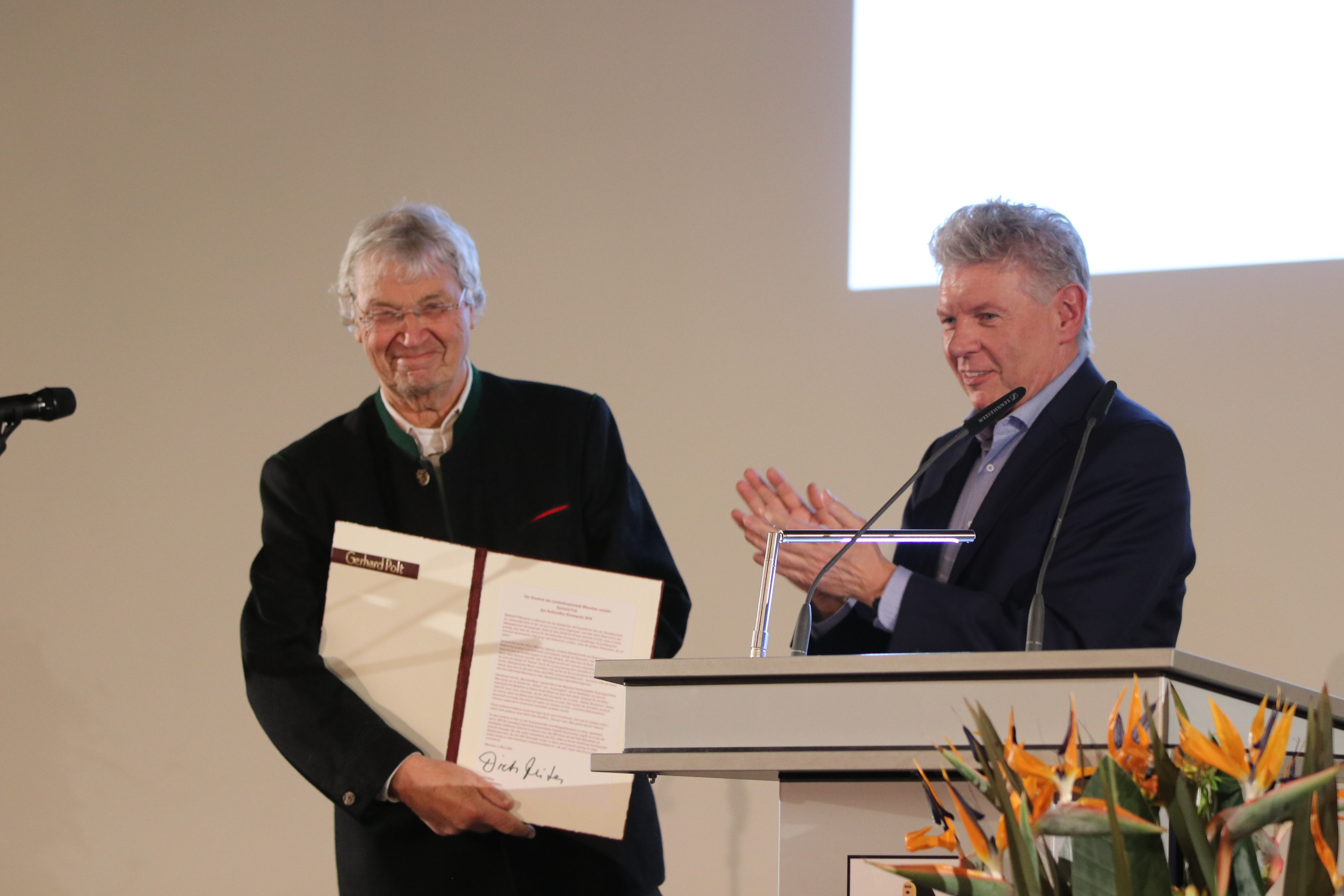 Oberbürgermeister Dieter Reiter überreicht den kulturellen Ehrenpreis 2019 der Stadt München an Gerhard Polt